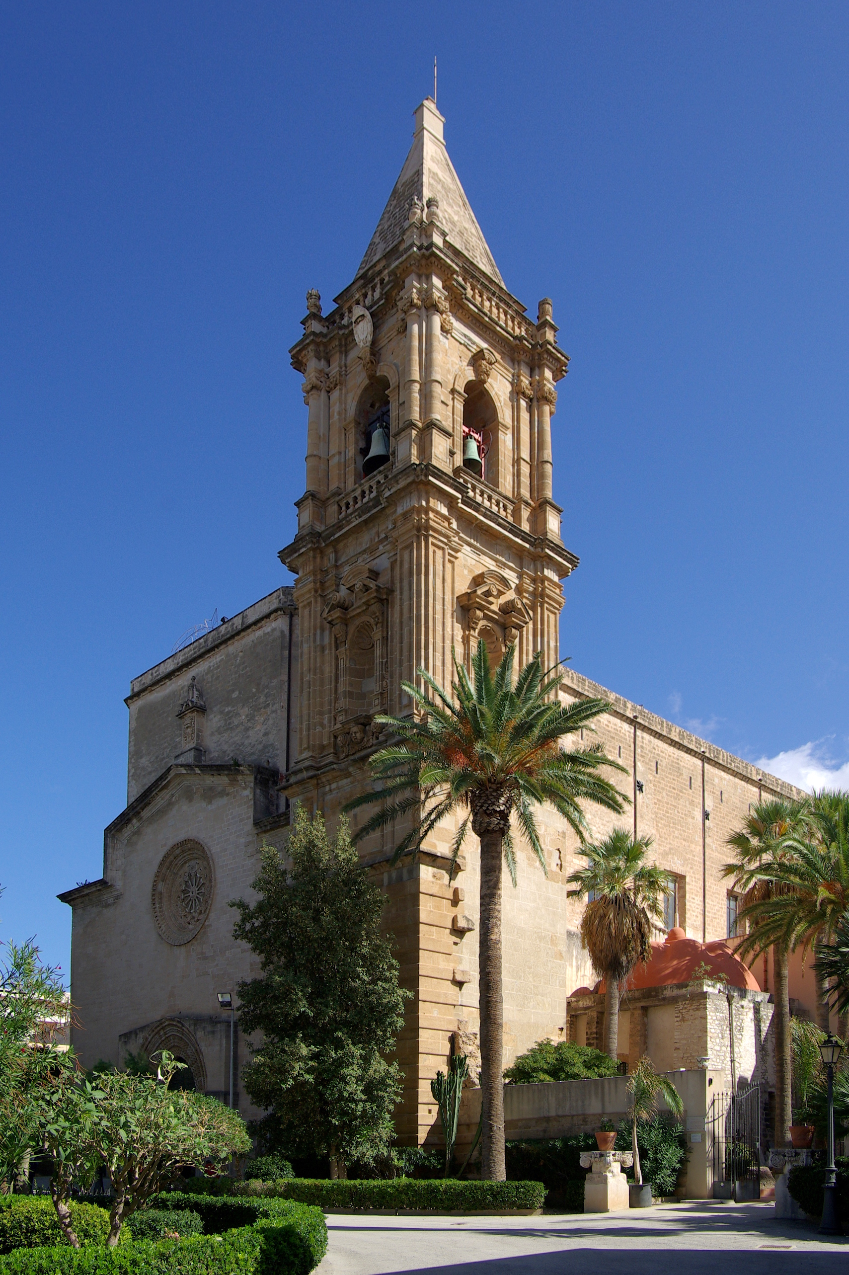 Italy, Sicily, Trapani, Basilica-santuario di Maria Santissima Annunziata